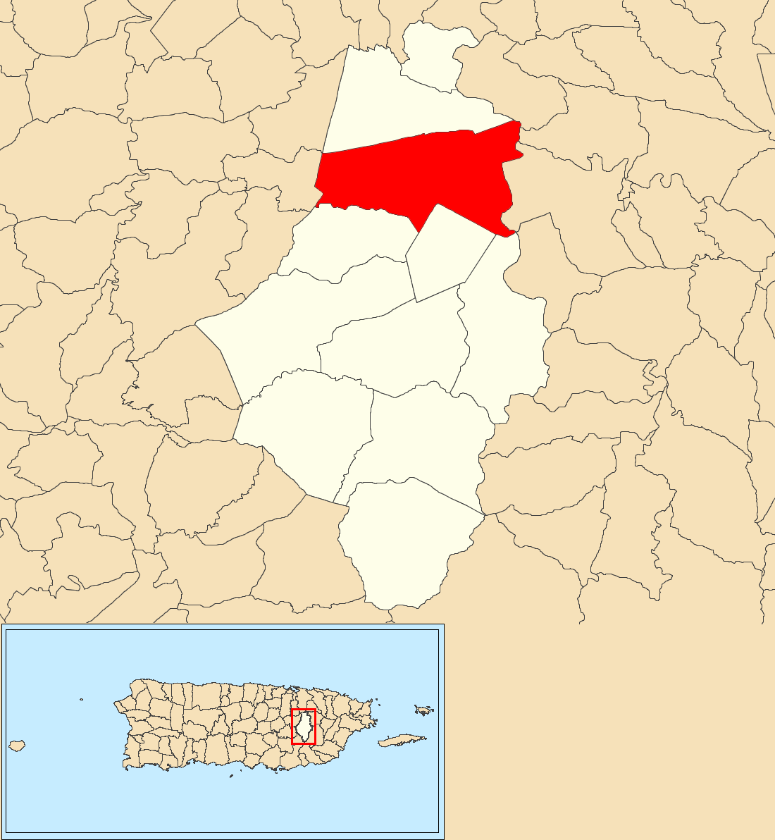 Bairoa, Caguas, Puerto Rico locator map